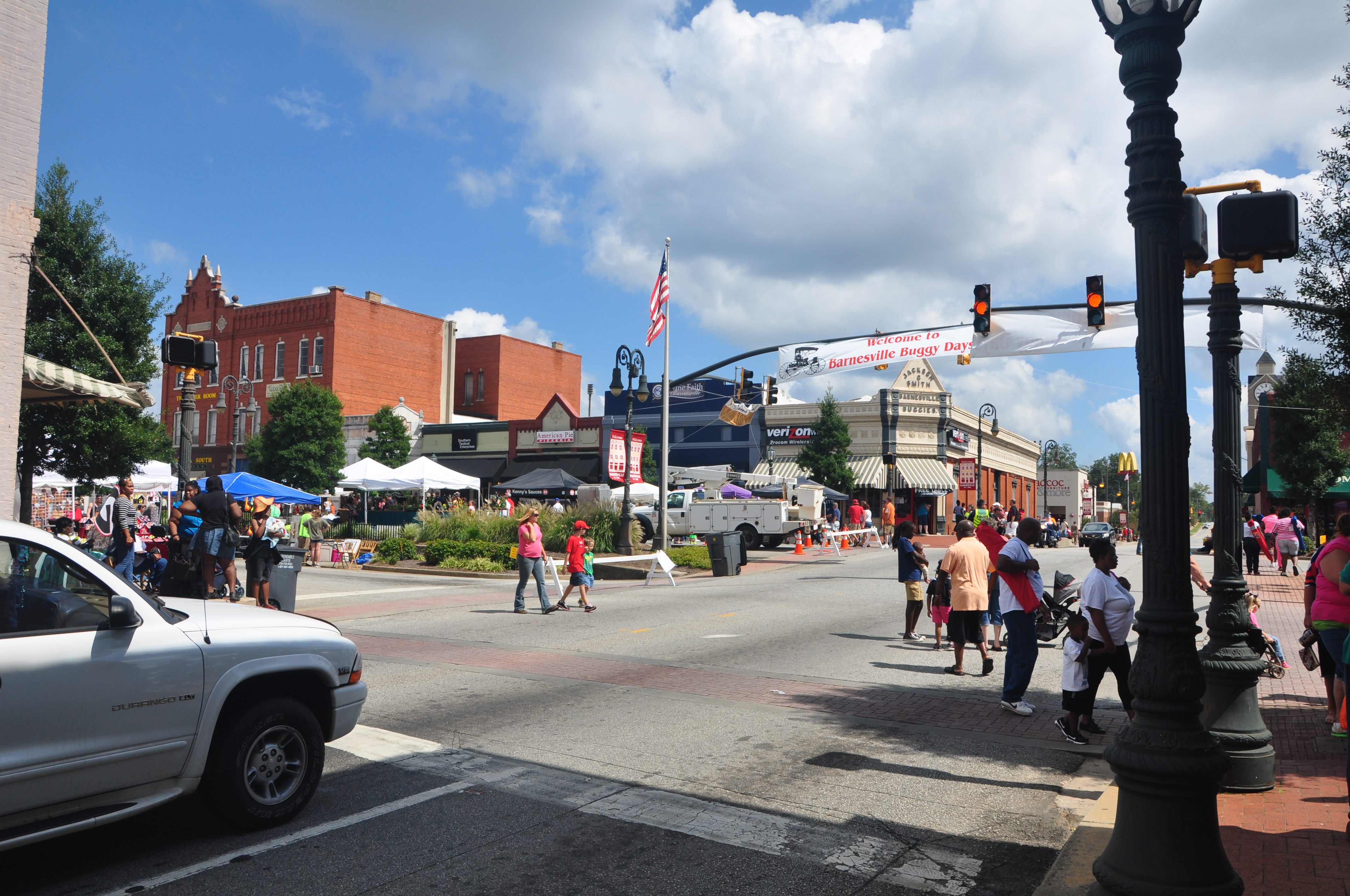 Barnesville Commercial Historic District, Roughly bounded by College, Taylor and Market Sts. and the Central of GA RR tracks Barnesville